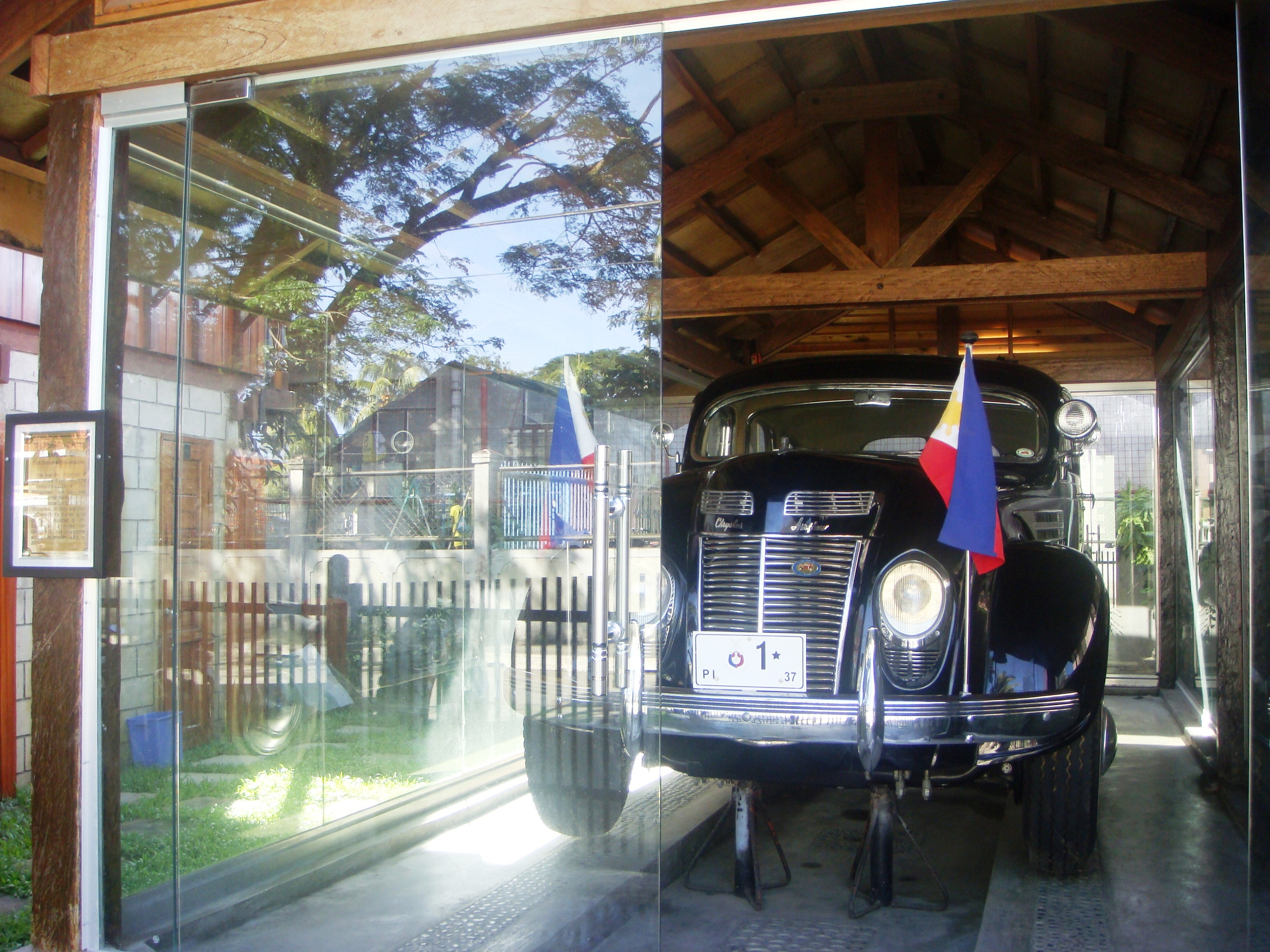 Newly restored Commonwealth official car of MLQ, a 1937 Chrysler Imperial Airflow series CW limousine. The car was (restored by Alfred Motorworks & Alfred Nobel R. Peres) [1]